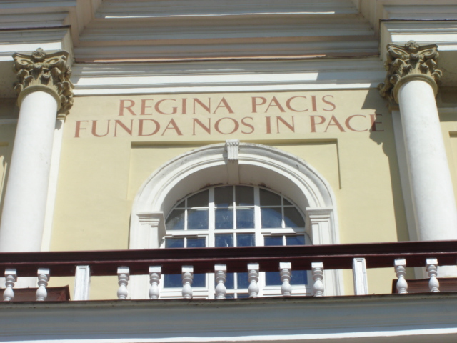 St. Peter and St. Paul's Church in Vilnius